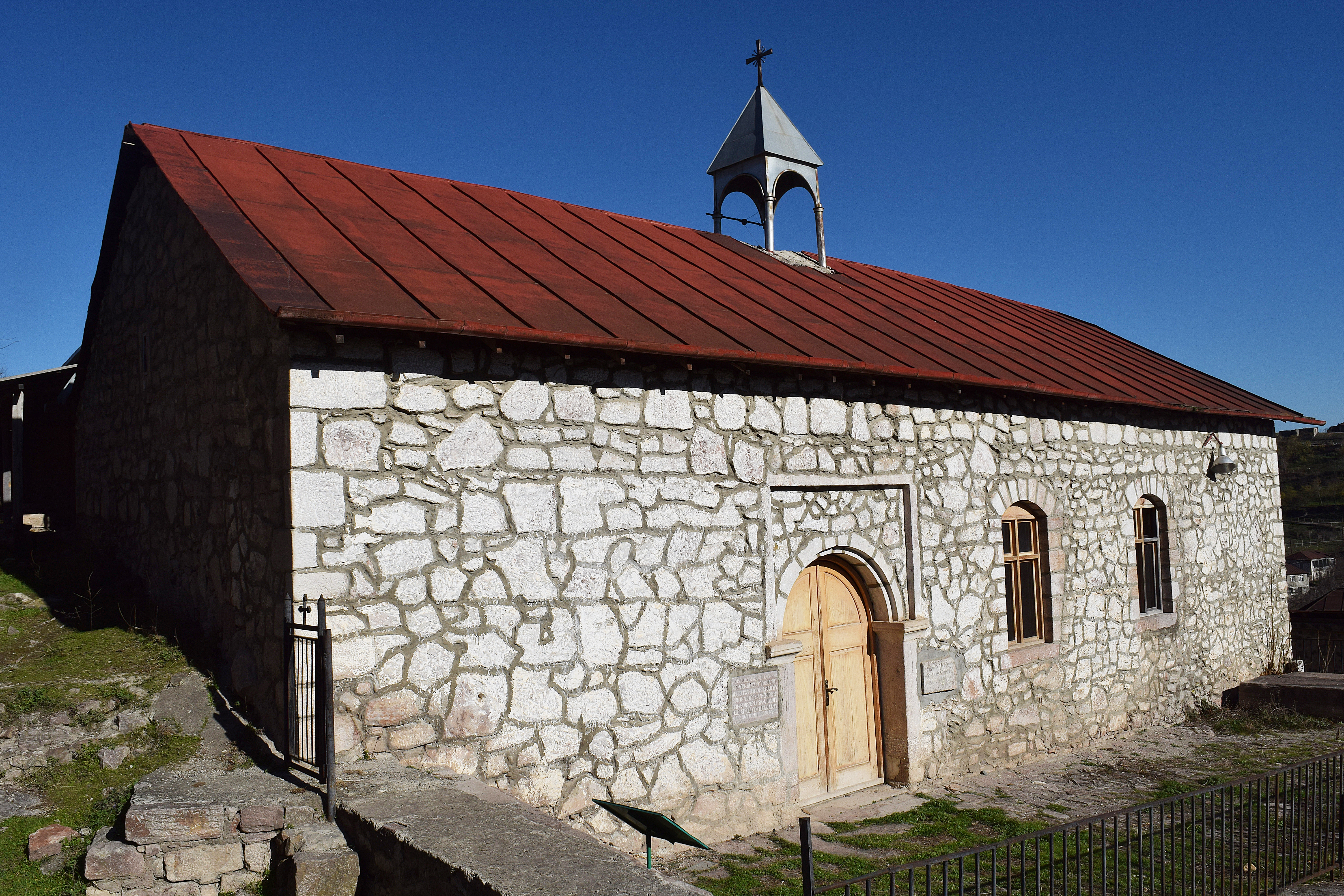 S. Gevorg Church, Astghashen